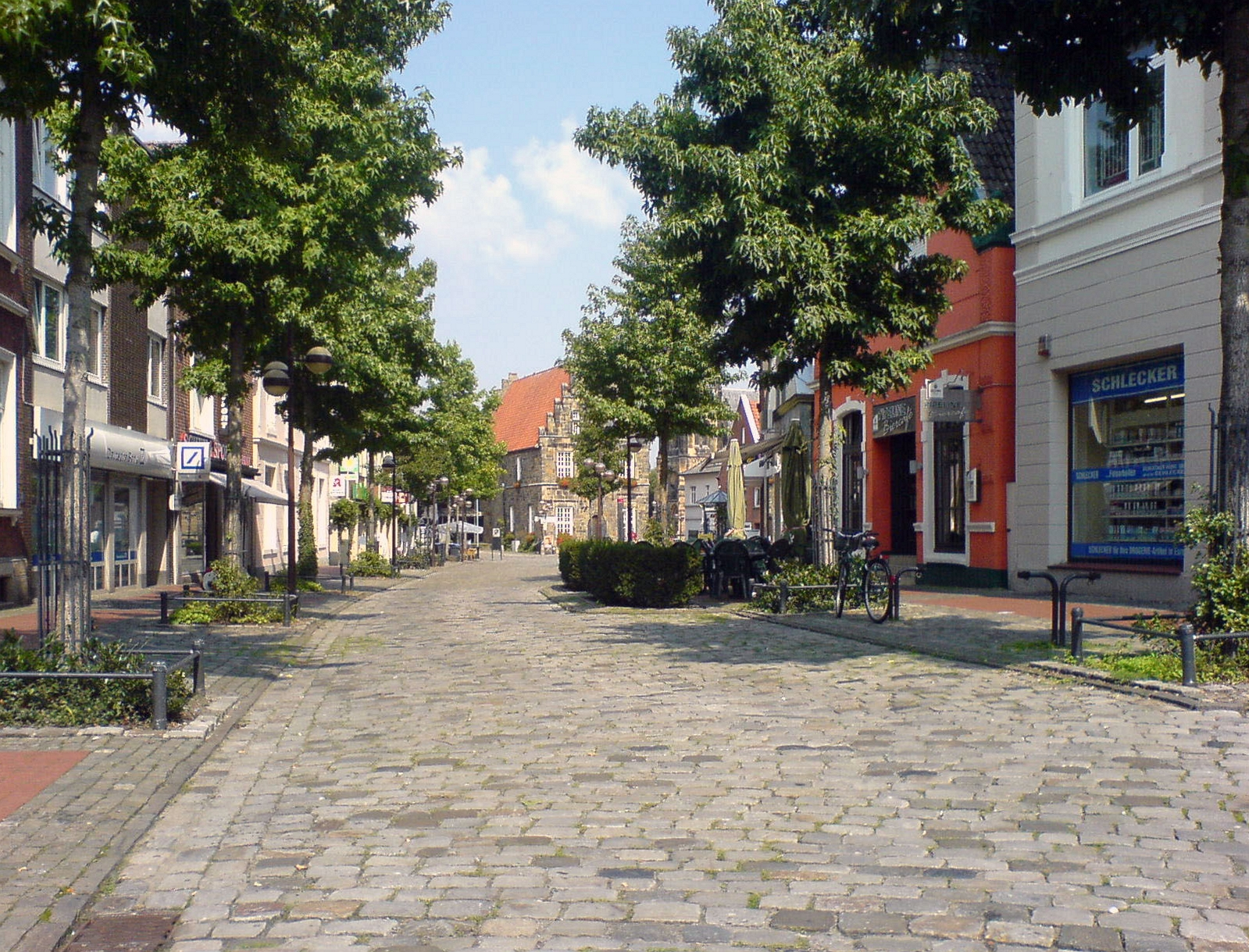 Schüttorf town center